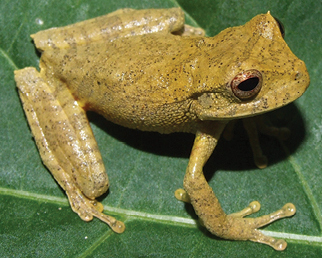 Anurans from the RPPN Serra Bonita, Bahia State, Northeastern Brazil. a Brachycephalus pulex b Ischnocnema verrucosa c Ischnocnema sp. 1 (gr. parva) d Rhinella crucifer e R. granulosa f Vitreorana eurygnatha g V. uranoscopa h Haddadus binotatus i “Eleutherodactylus” bilineatus j Pristimantis sp. 1 l P. vinhai m Adelophryne sp. n Gastrotheca pulchra o Aplastodiscus ibirapitanga; and p A. cf. weygoldti.